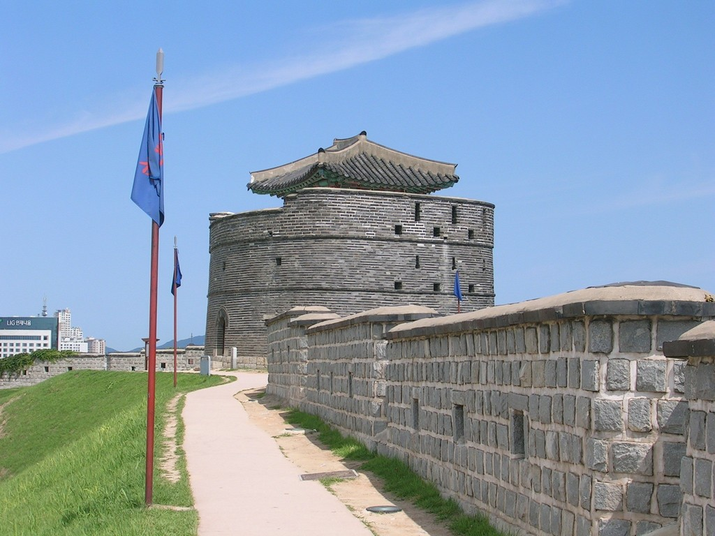 This photo has been taken by Marcopolis (talk) 02:41, 27 February 2008 (UTC), in July 2007 with a digital camera. The photo shows a part of Suwon Hwaseong, located in Suwon, South Korea. 2013-04-28. Seems to be Dongbuk gongsimdon.